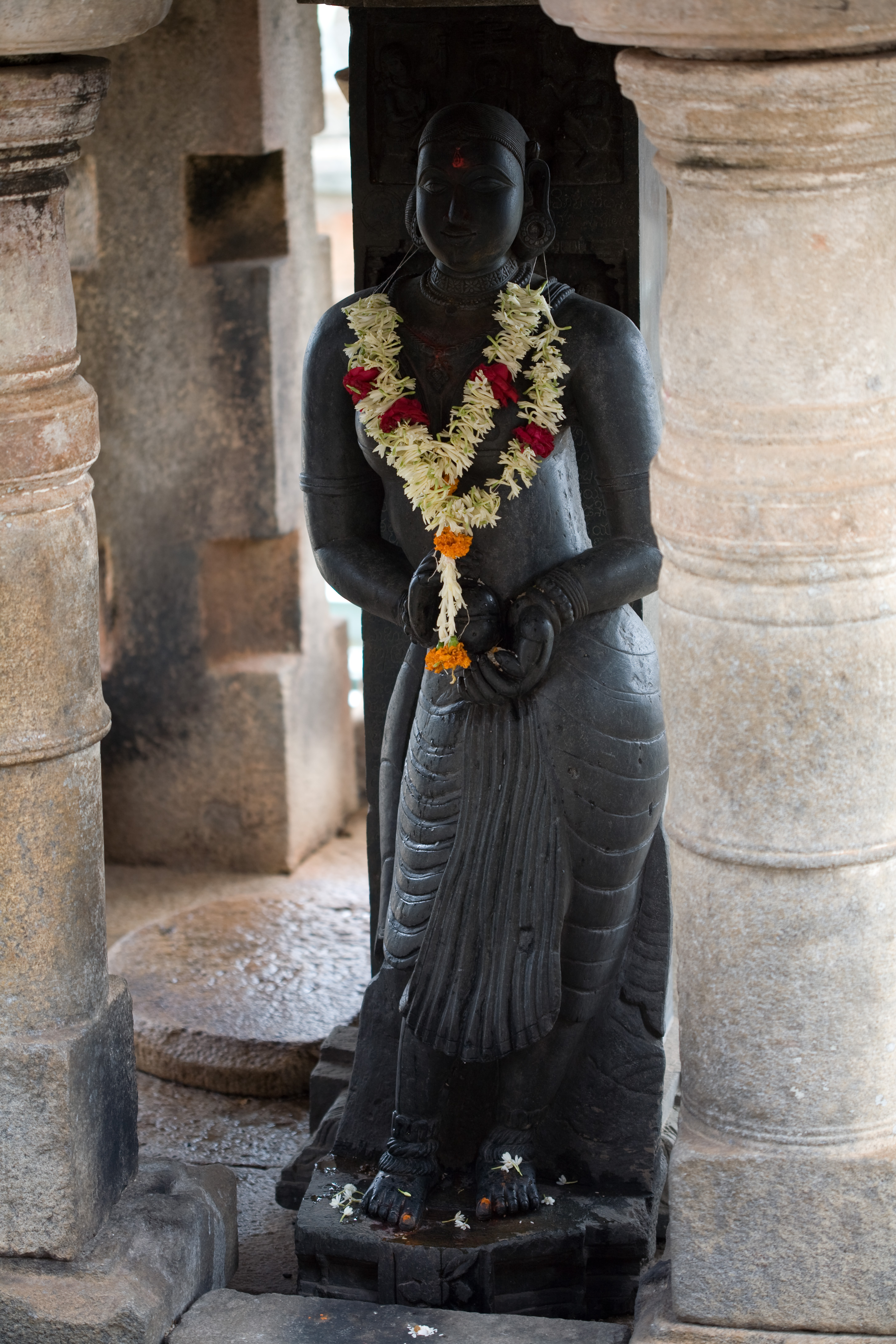 Garlanded female statue at the Jain temple of Sravanbelagola.Devi